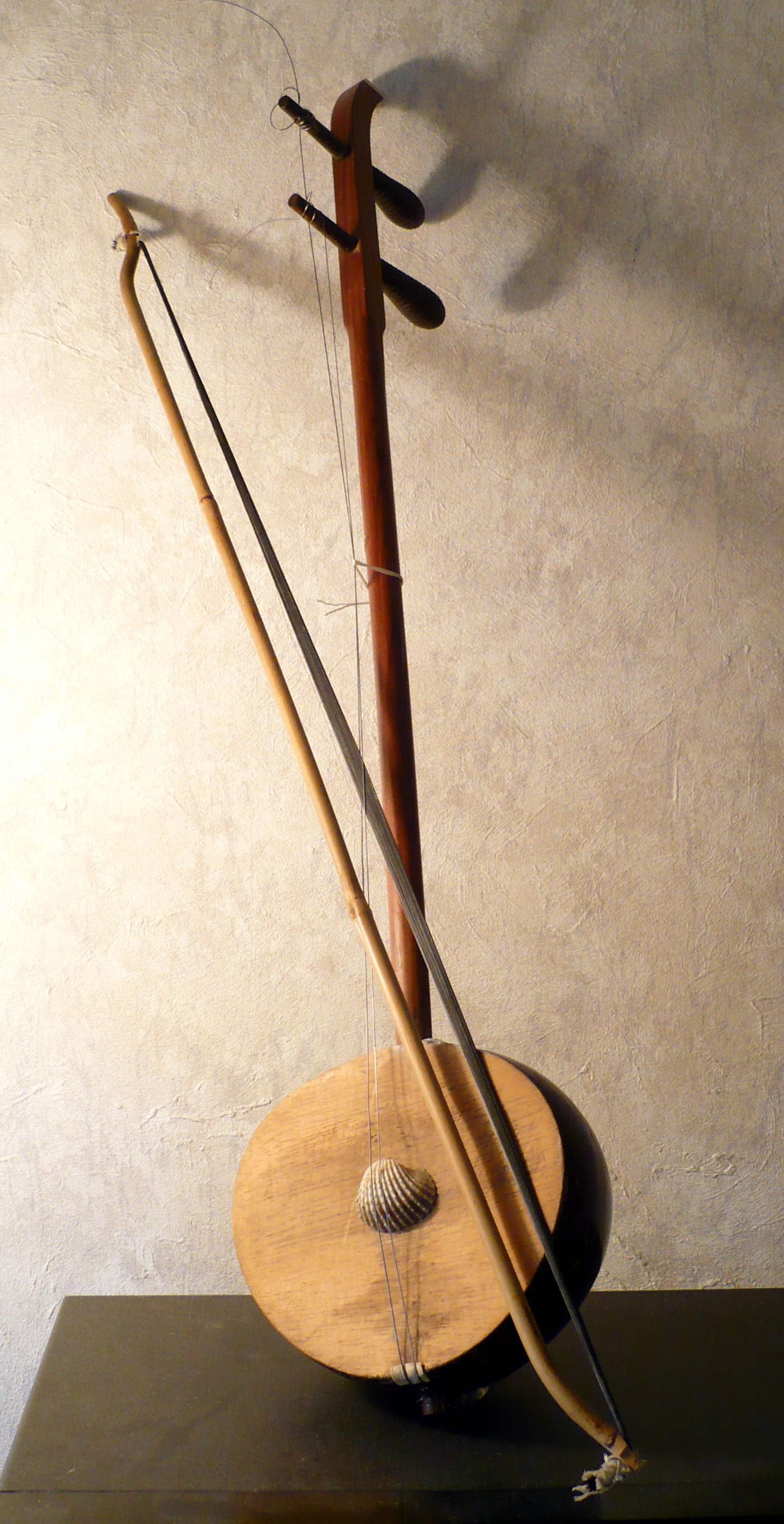 A Chinese yehu (2-stringed fiddle with coconut shell body). Photo taken in Kent, Ohio, United States. The yehu was probably made in Guangdong, China.